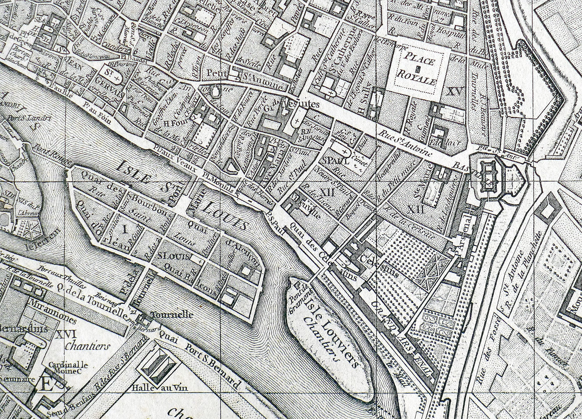 Vaugondy's map of Paris (4e arrondissement) - 1760